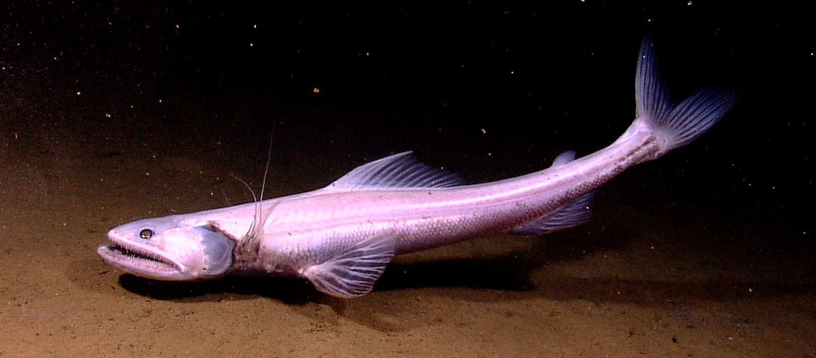 A 70-cm scraggly toothed bathysaurus fish Indonesia.